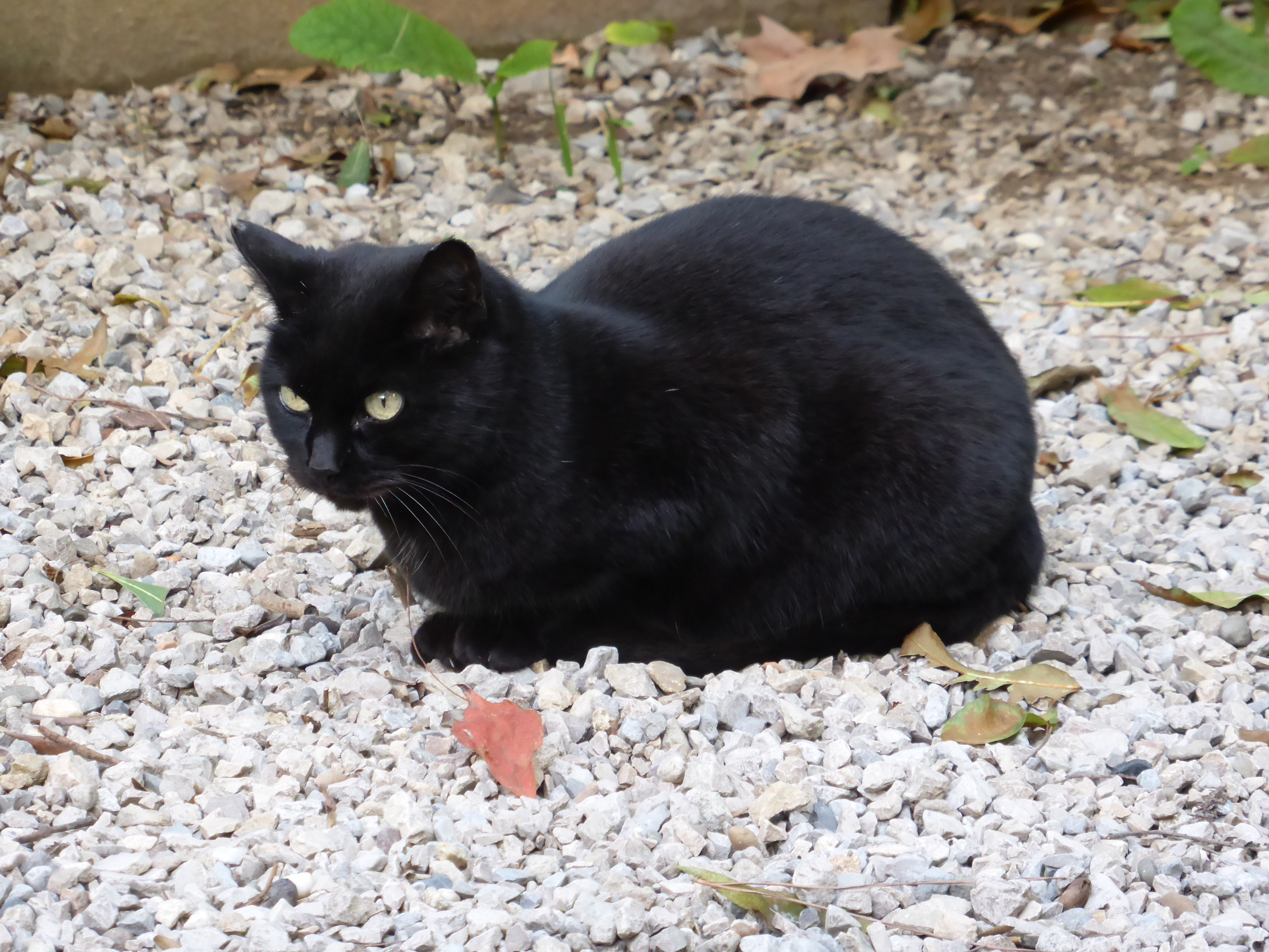 Black cat in Barcelona